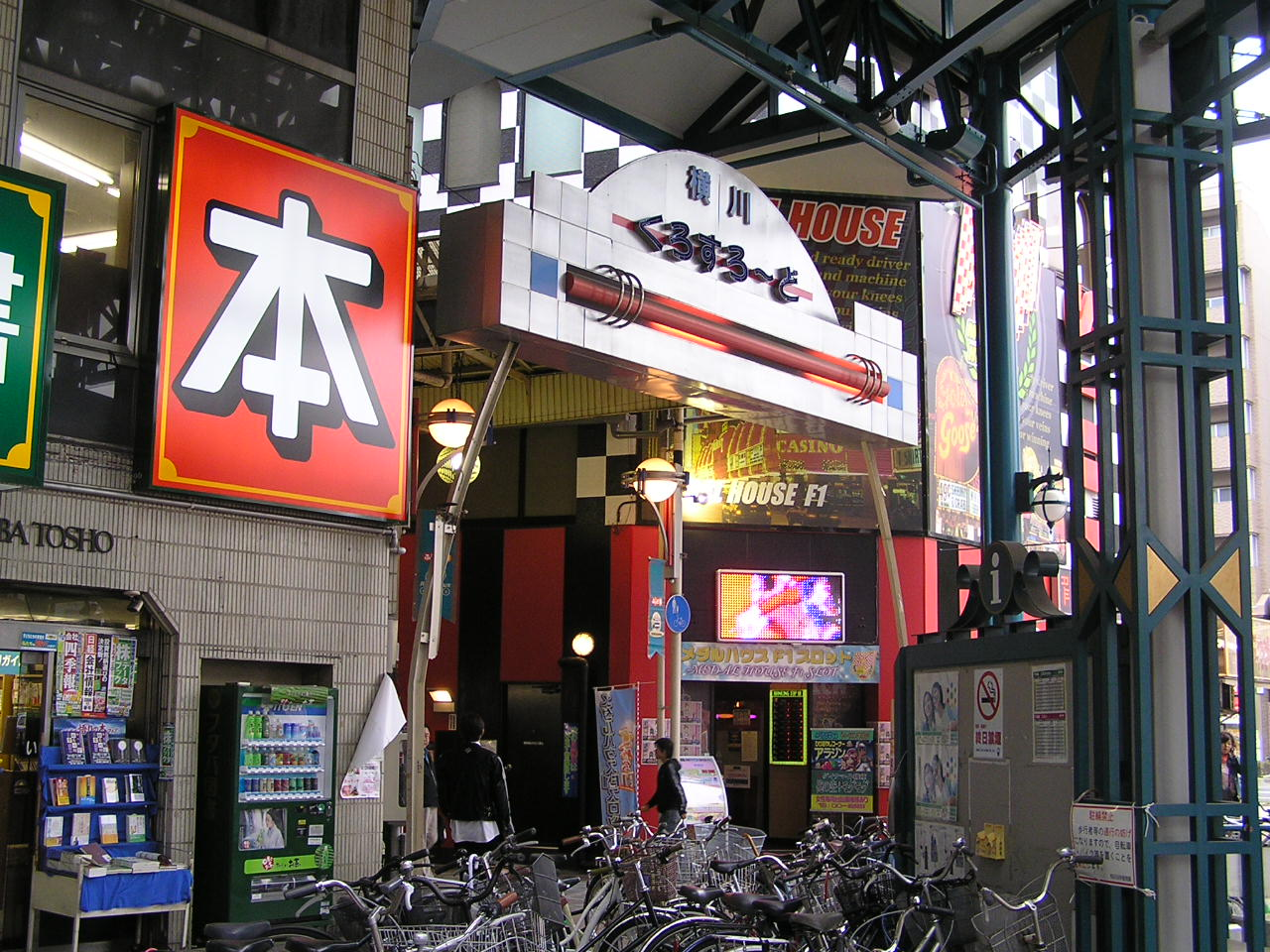 yokogawa shopping street around the station